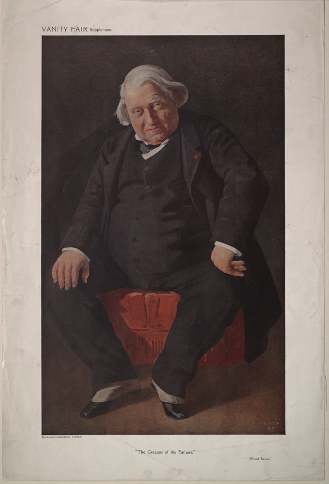 Men of the Day No.1247: Caricature of Ernest Renan. Caption reads: "The Greatest of Fathers"